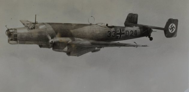 PictionID:38236350 - Catalog:Array - Title:Array - Filename:15_002326.TIF - -------Image from the Charles Daniels Photo Collection.----Album: German Aircraft.-----------PLEASE TAG these images with any information you know about them so that we can permanently store this data with the original image file in our Digital Asset Management System.-----------------SOURCE INSTITUTION: San Diego Air and Space Museum Archive